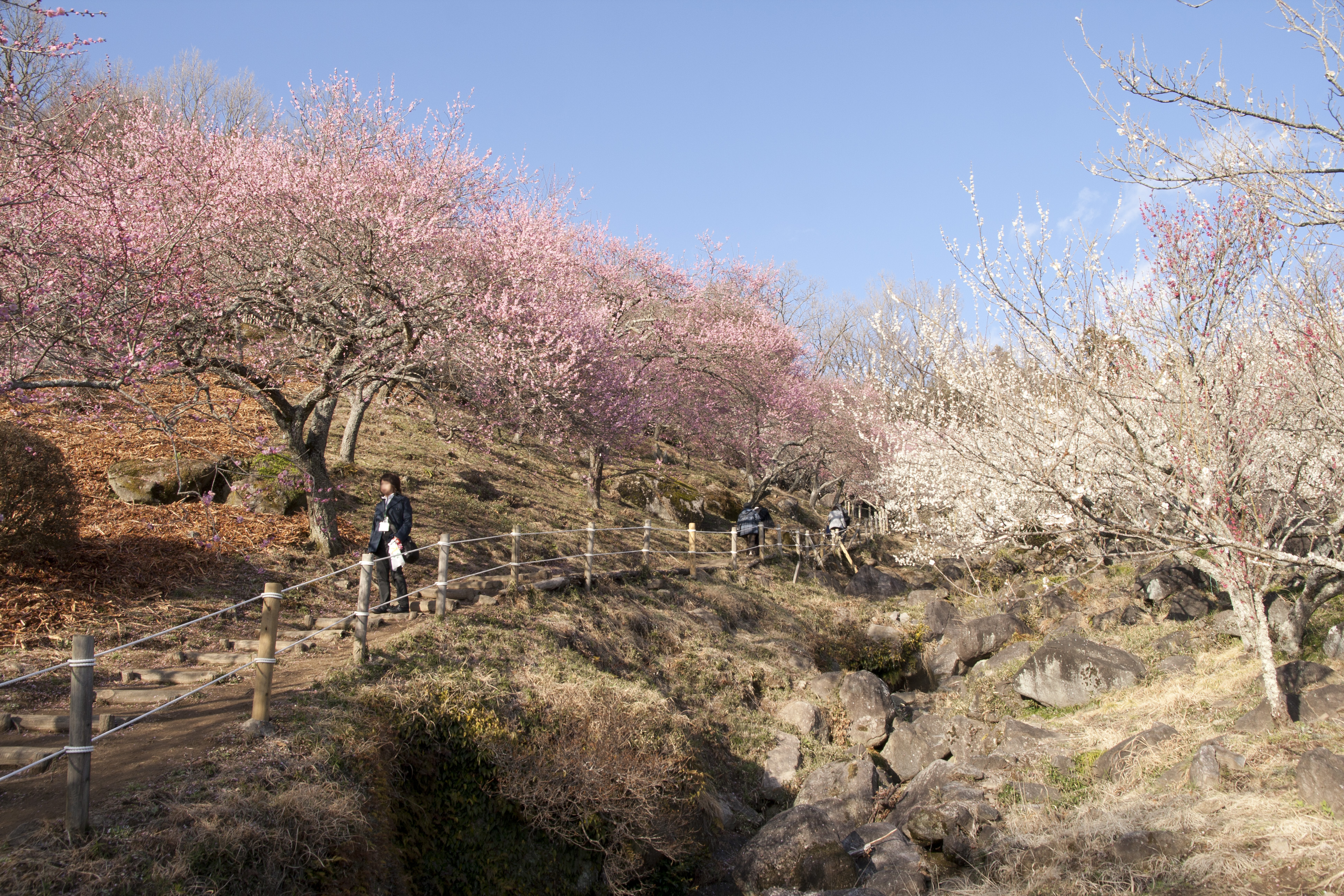 Tsukubasan bairin park in Tsukuba City, Ibaraki Pref., Japan